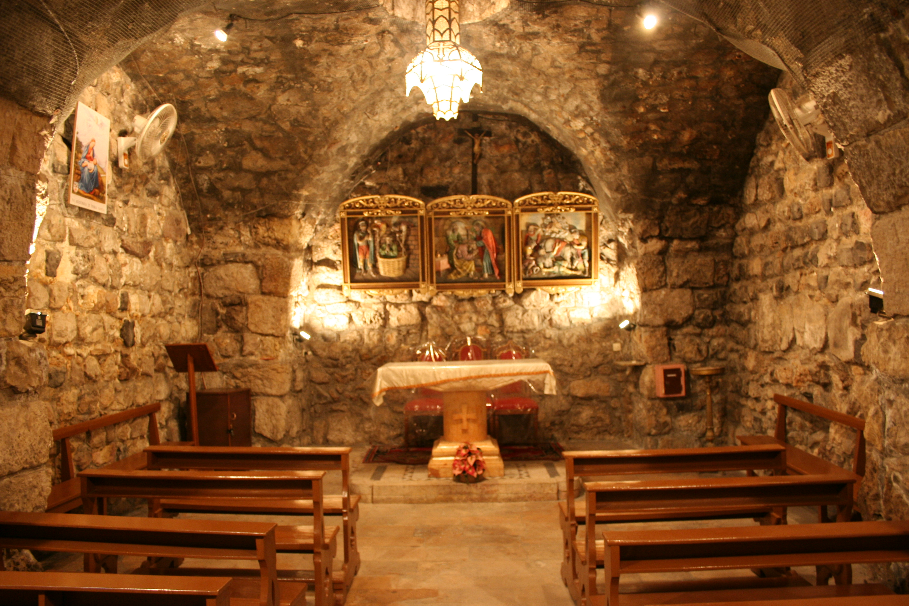 Inside of Saint Ananias taken in 2006